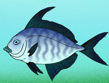 Reconstruction of the Eocene Lampriformes Veronavelifer sorbinii, from Monte Bolca, Italy